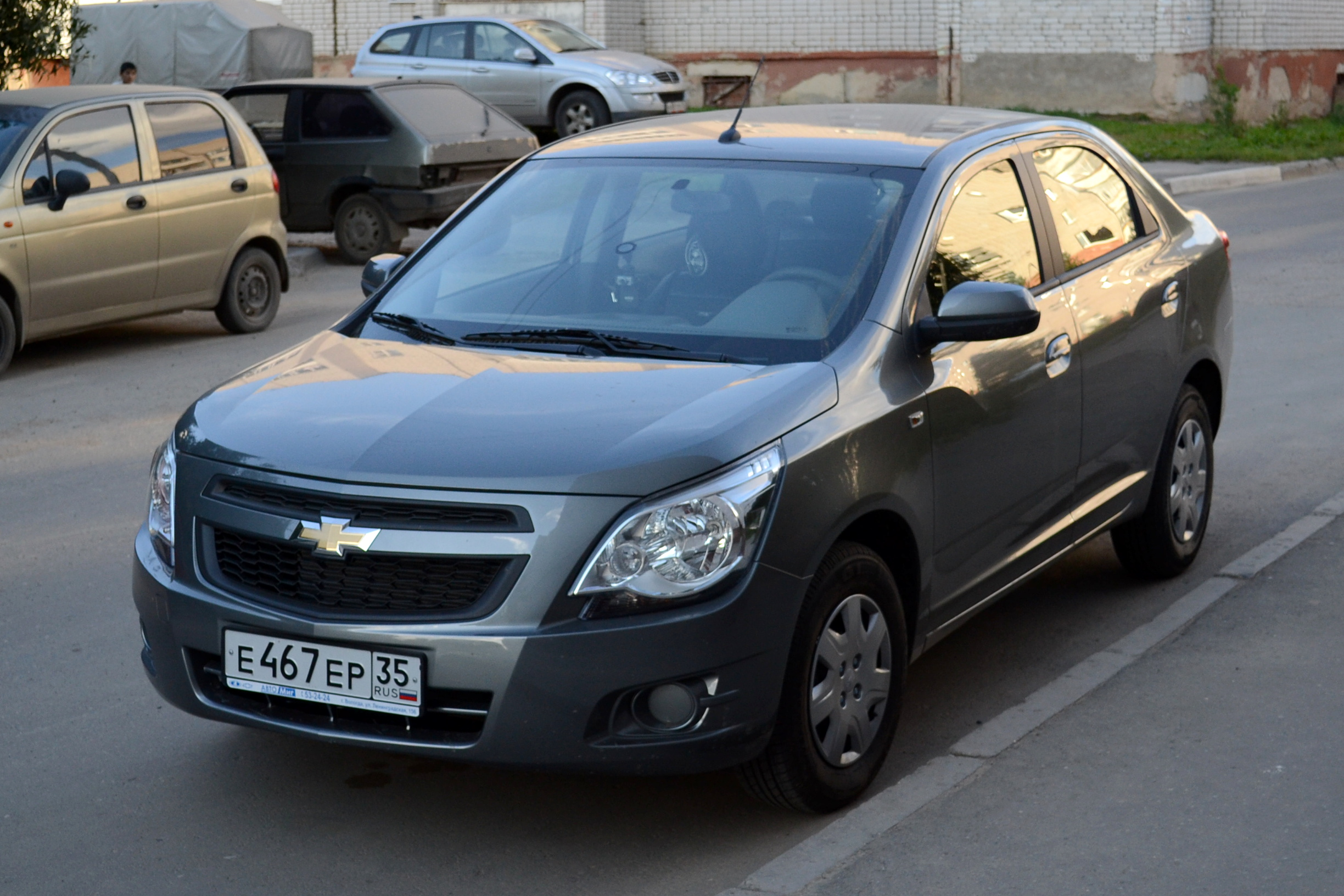 The 2013 Chevrolet Cobalt for the Russian and the Brazilian market